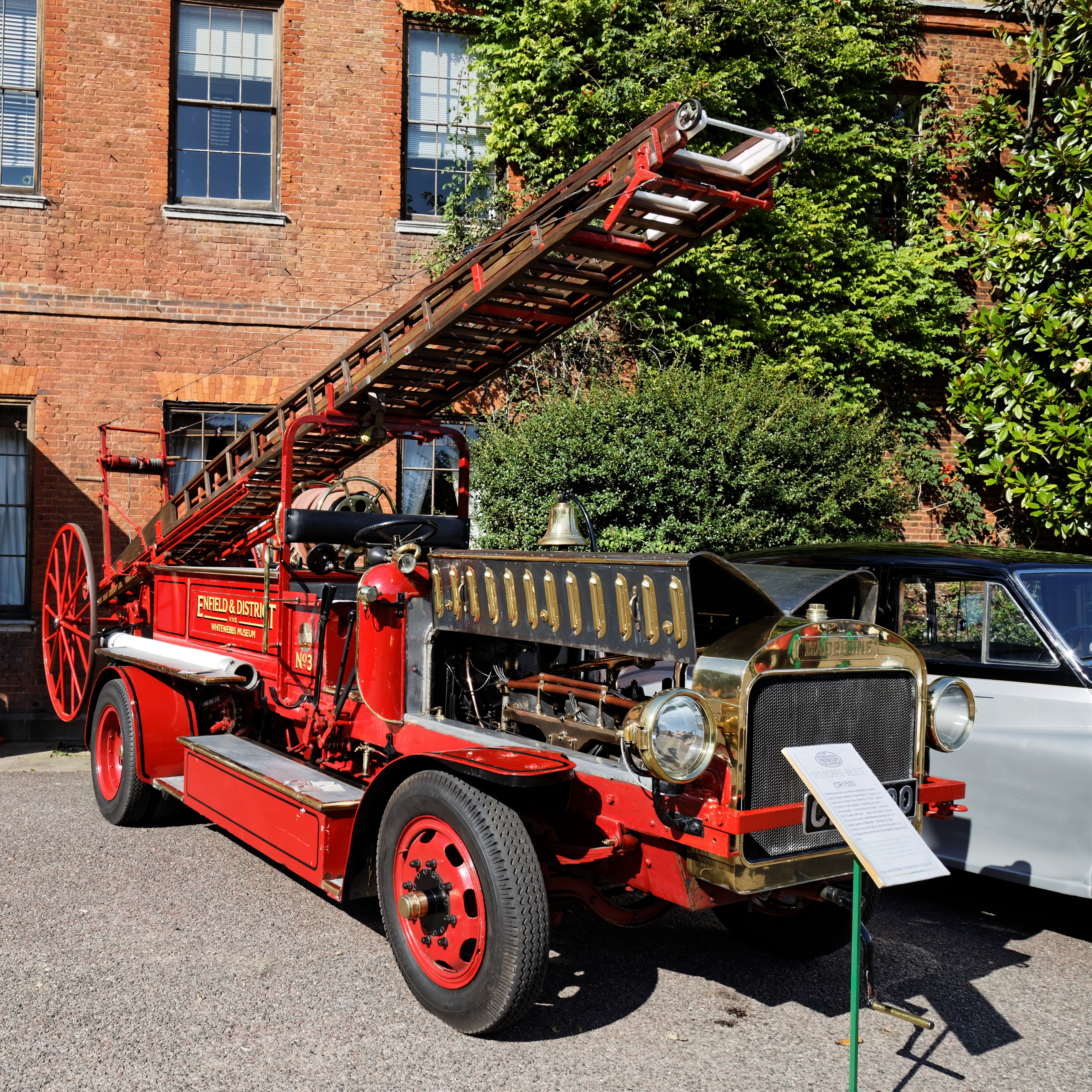 1912 John Morris Belsize 6 cylinder petrol 14,700cc fire engine at Capel Manor, Bulls Cross, Enfield, London, England. The engine, one of only two remaining in the world, was built by John Morris and Sons Ltd of Manchester [on a Belsize chassis] and was in service with the Southampton Fire Brigade from 1912 to 1926, before being bought by Dennis Brothers Ltd. While at Southampton the engine was named 'Madeleine' after the wife of Southampton's Mayor. The fire engine is today part of the collection of the Whitewebbs Museum of Transport at Clay Hill, London.Software: RAW file lens-corrected, optimized and converted to JPEG with DxO OpticsPro 10 Elite, and likely further optimized and/or cropped and/or spun with Adobe Photoshop CS2.